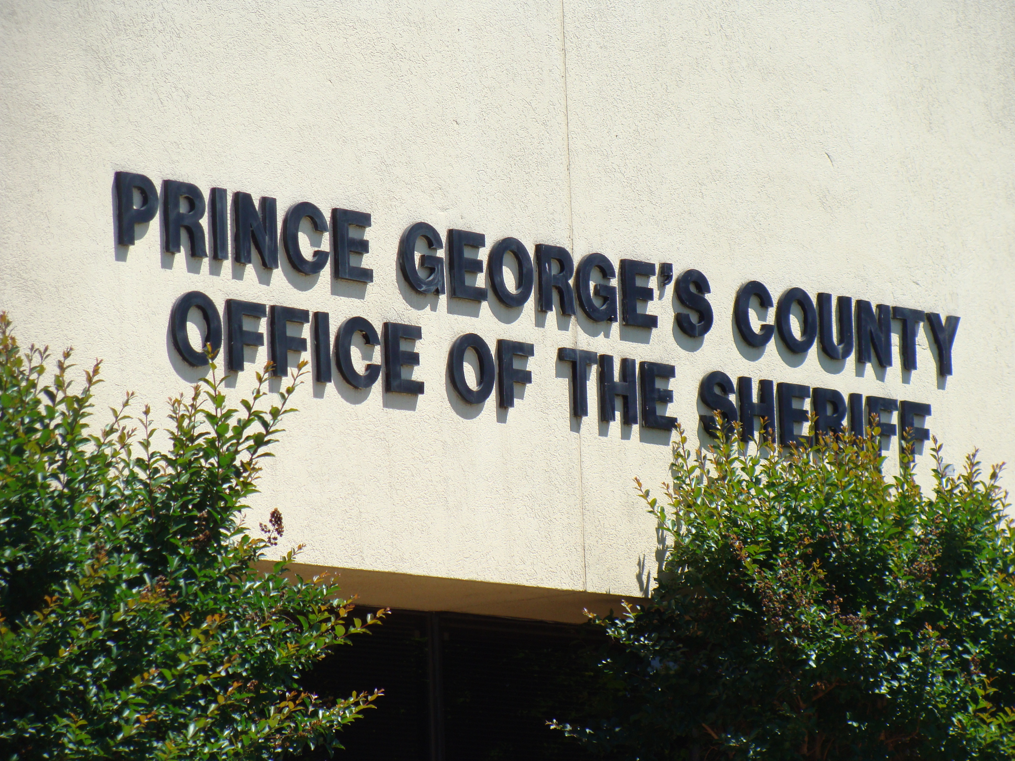 The outside of the (former) Prince George's County Sheriff's Office (PGSO) substation in Largo, Maryland, in May 2009. Located at 1601 McCormick Drive, Largo, Maryland, 20774.